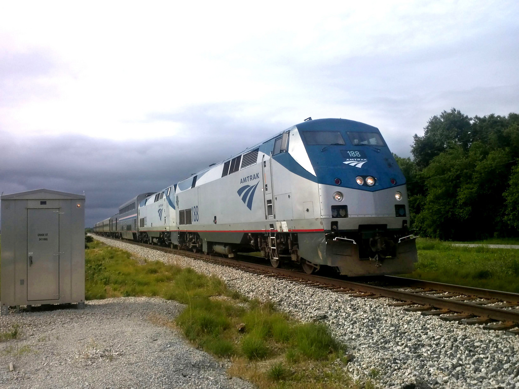 The Hoosier State passing through Shelby, Indiana on June 24, 2011. Note the Chase St. signal box on the CSX line. The mixed consist--a Superliner, baggage car and Horizon Fleet coaches--is typical for the Hoosier State which serves as Amtrak's "hospital train," ferrying equipment to and from the shops at Beech Grove, Indiana.